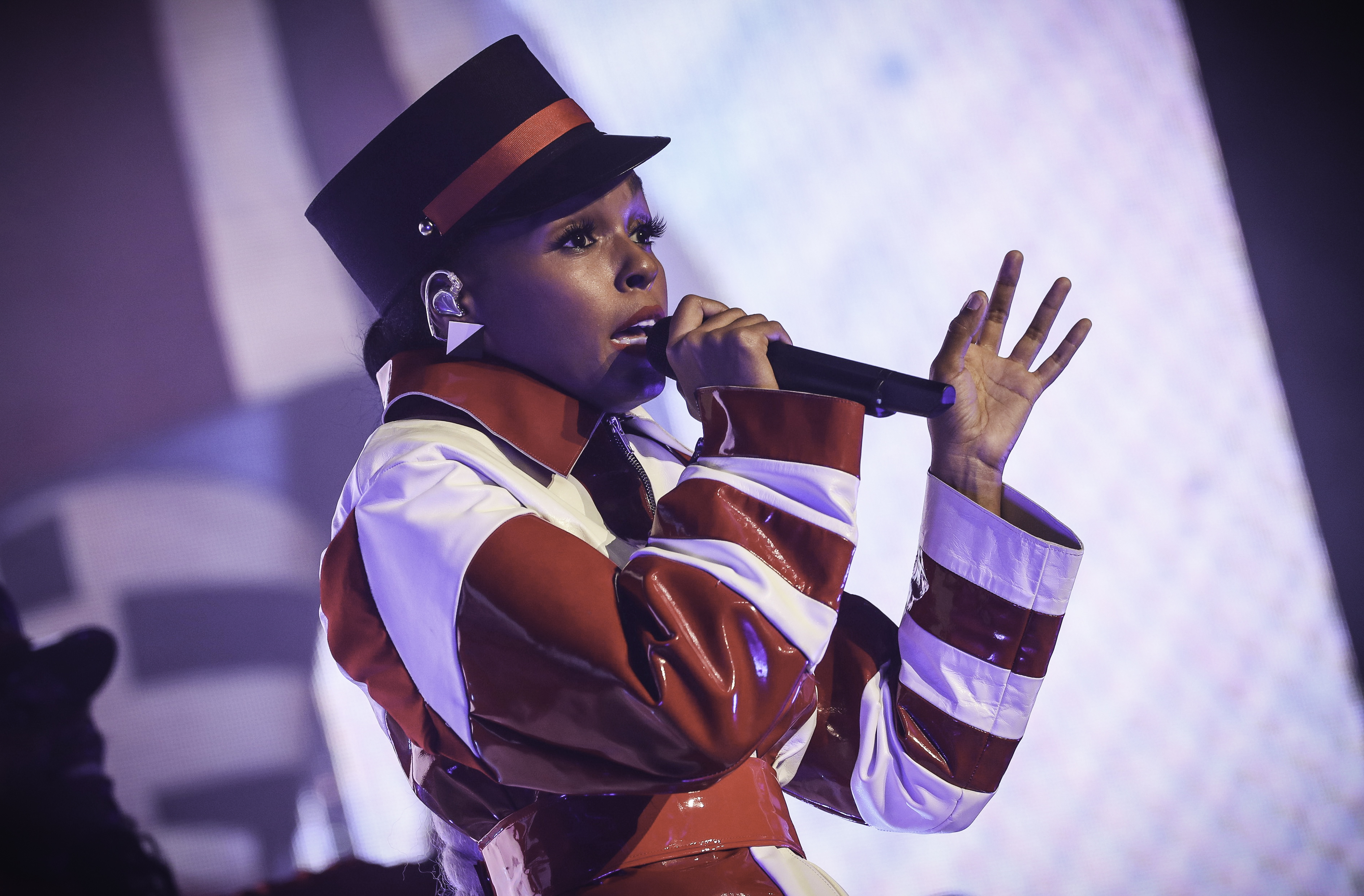 Janelle Monae - State Theatre - Minneapolis - Dirty Computer Tour